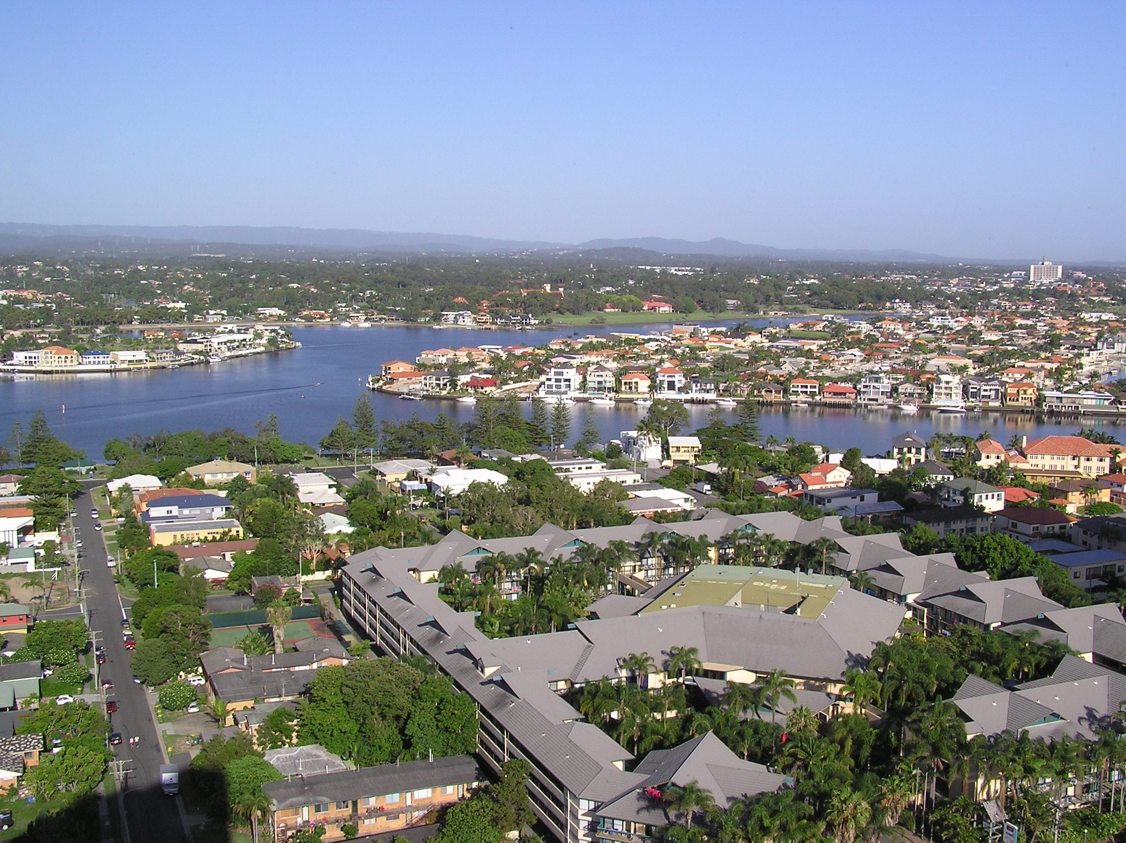 Gold Coast Waterway in Surfers Paradise